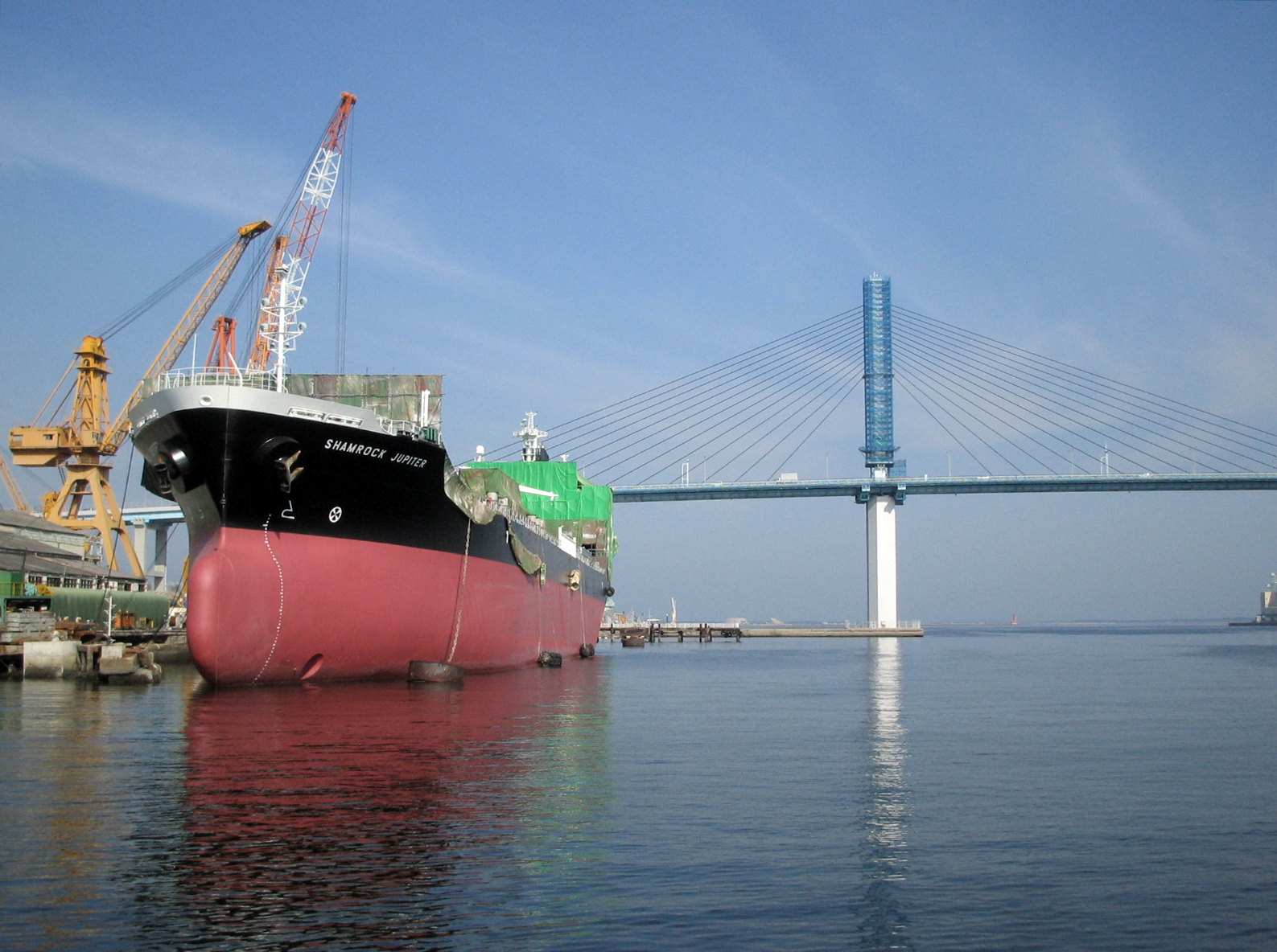 Port of Hakata and the Aratsu Bridge.